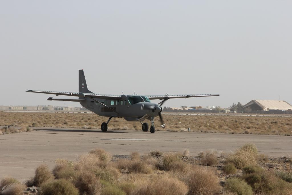 The first of six new Cessna 208B’s to be used for the Afghan Air Force undergraduate pilot training program arrived at Shindand Air Base, Afghanistan.